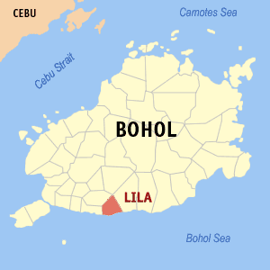 Map of Bohol showing the location of Lila